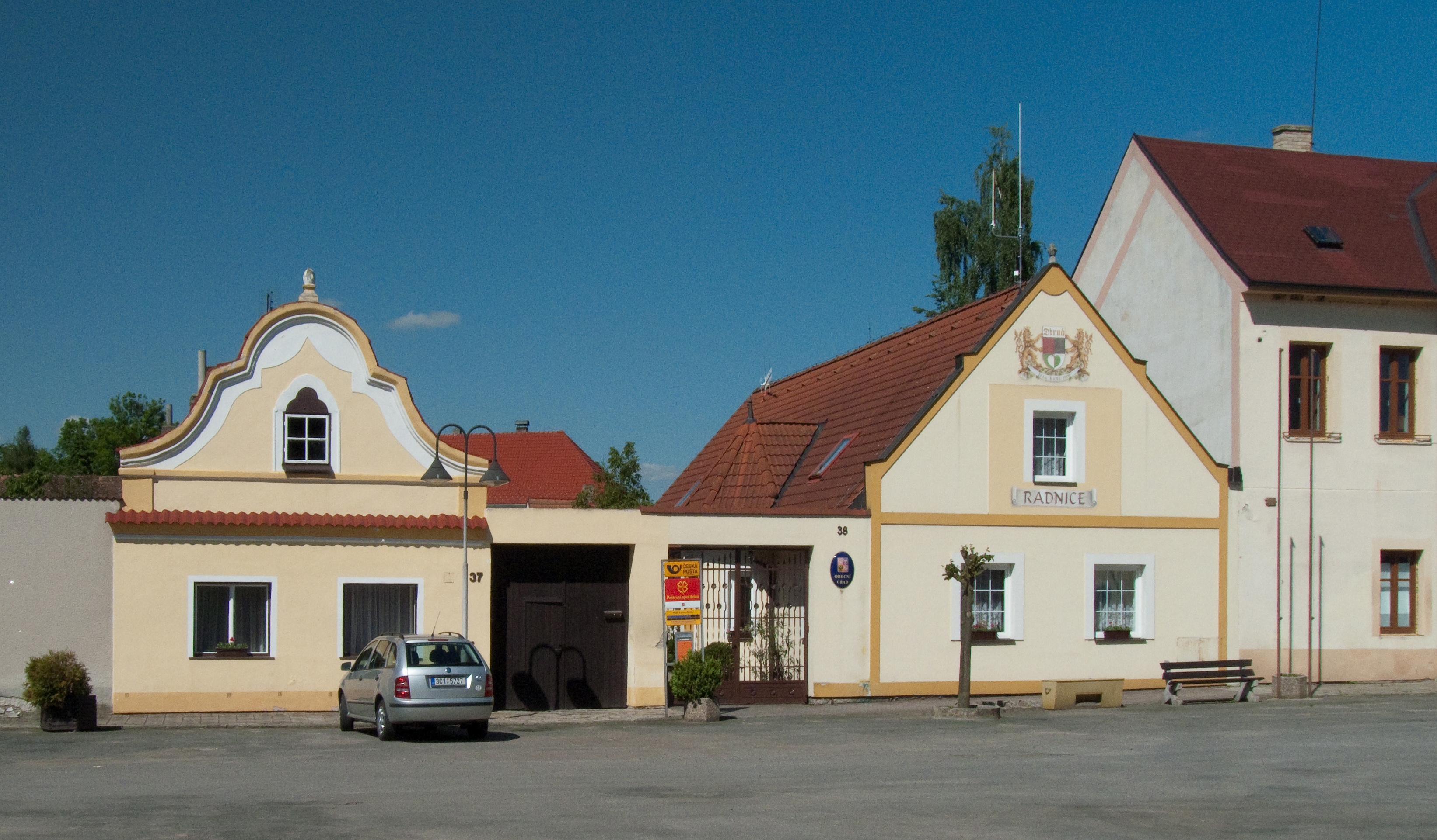 Town hall in the village of Dírná, Tábor district, Czech Republic